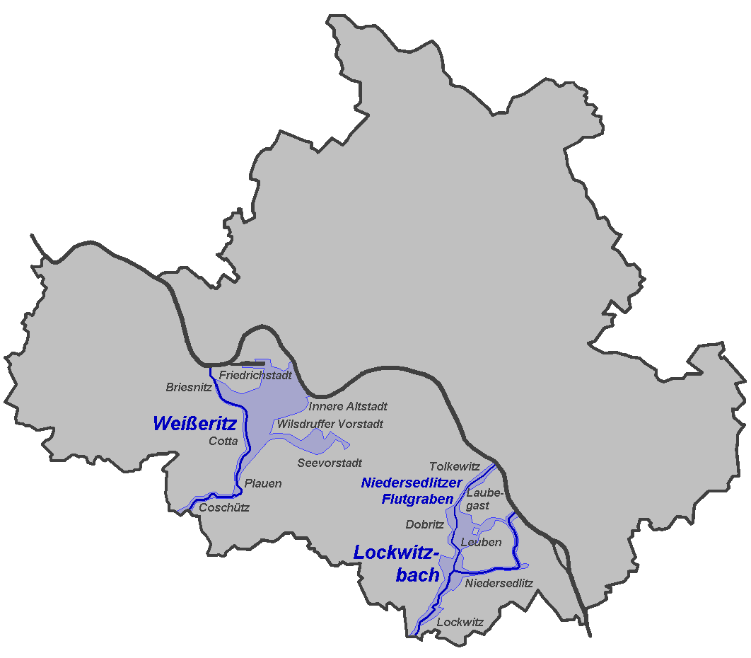 Areas flooded by the rivers Weißeritz and Lockwitzbach in Dresden (Notice: Please use official documents and maps to get detailed information!)